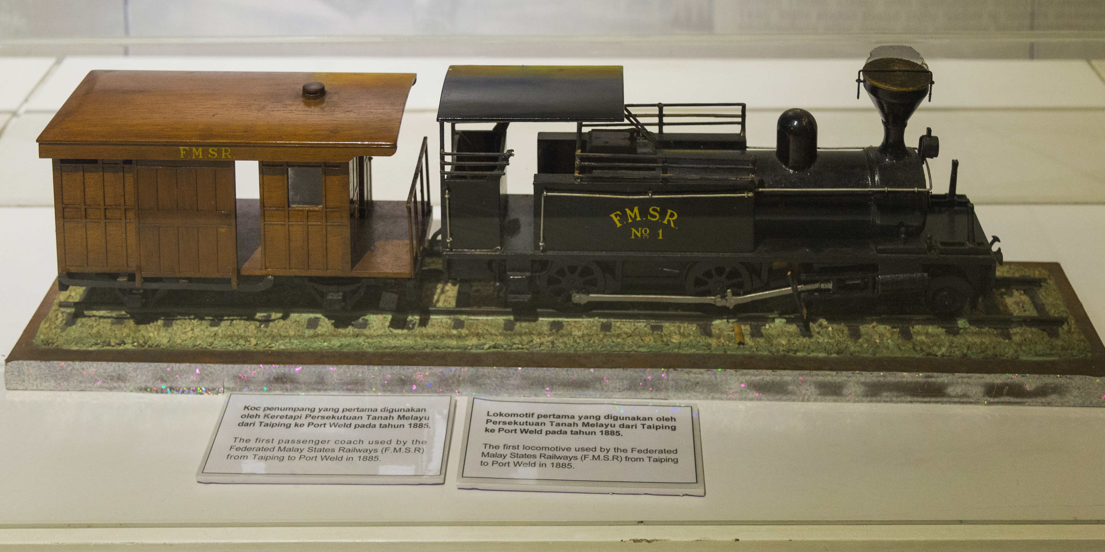 Model of a train from 1885 that ride on the route from Taiping to Port Weld. National Museum (Muzium Negara). Kuala Lumpur, Malaysia.